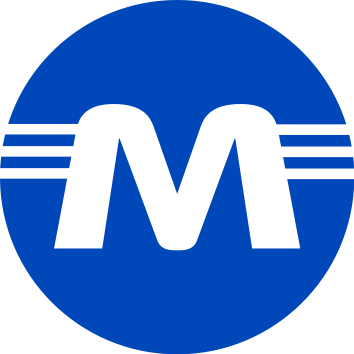 Logo of Vilnius metro